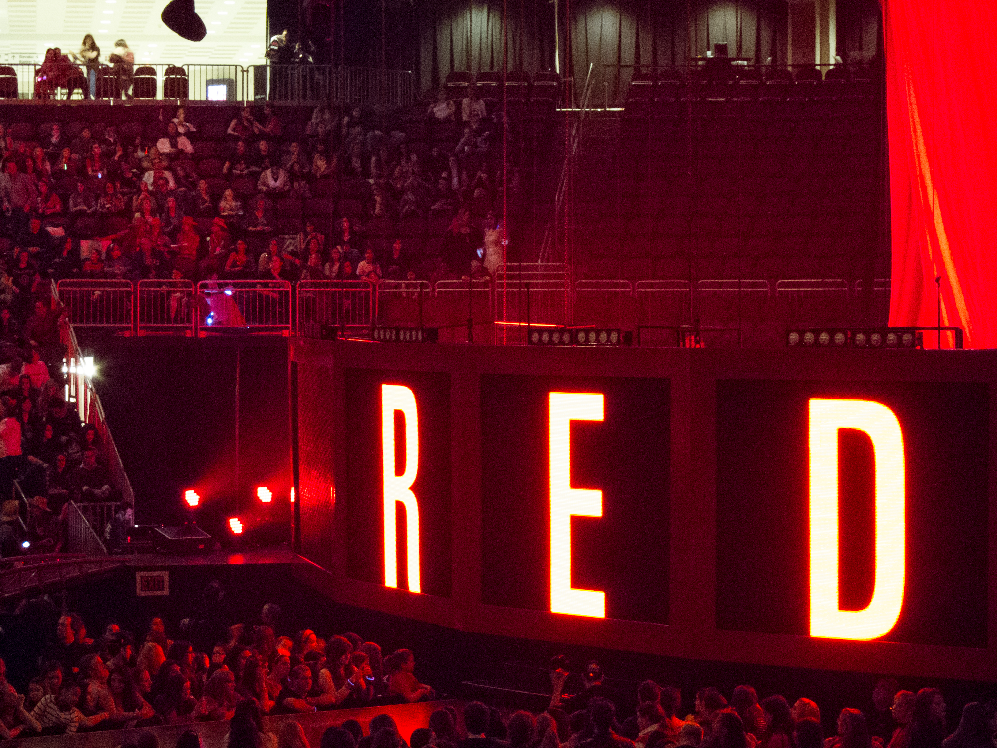 Red Tour by Taylor Swift